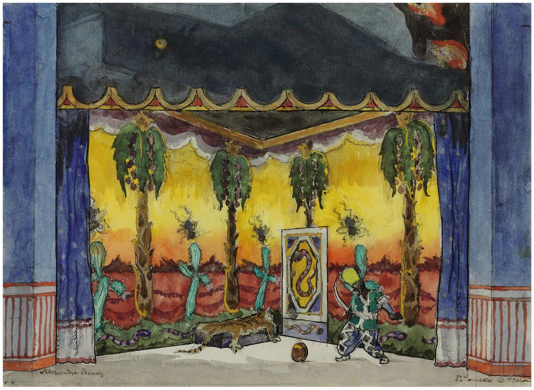 Set design for the Moor's room by Alexandre Benois for the 1911 Ballets Russes production Pétrouchka.